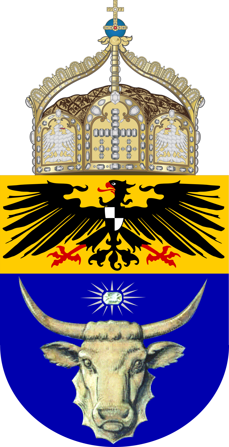 Proposed Coat of Arms for German Southwest-Africa, 1914